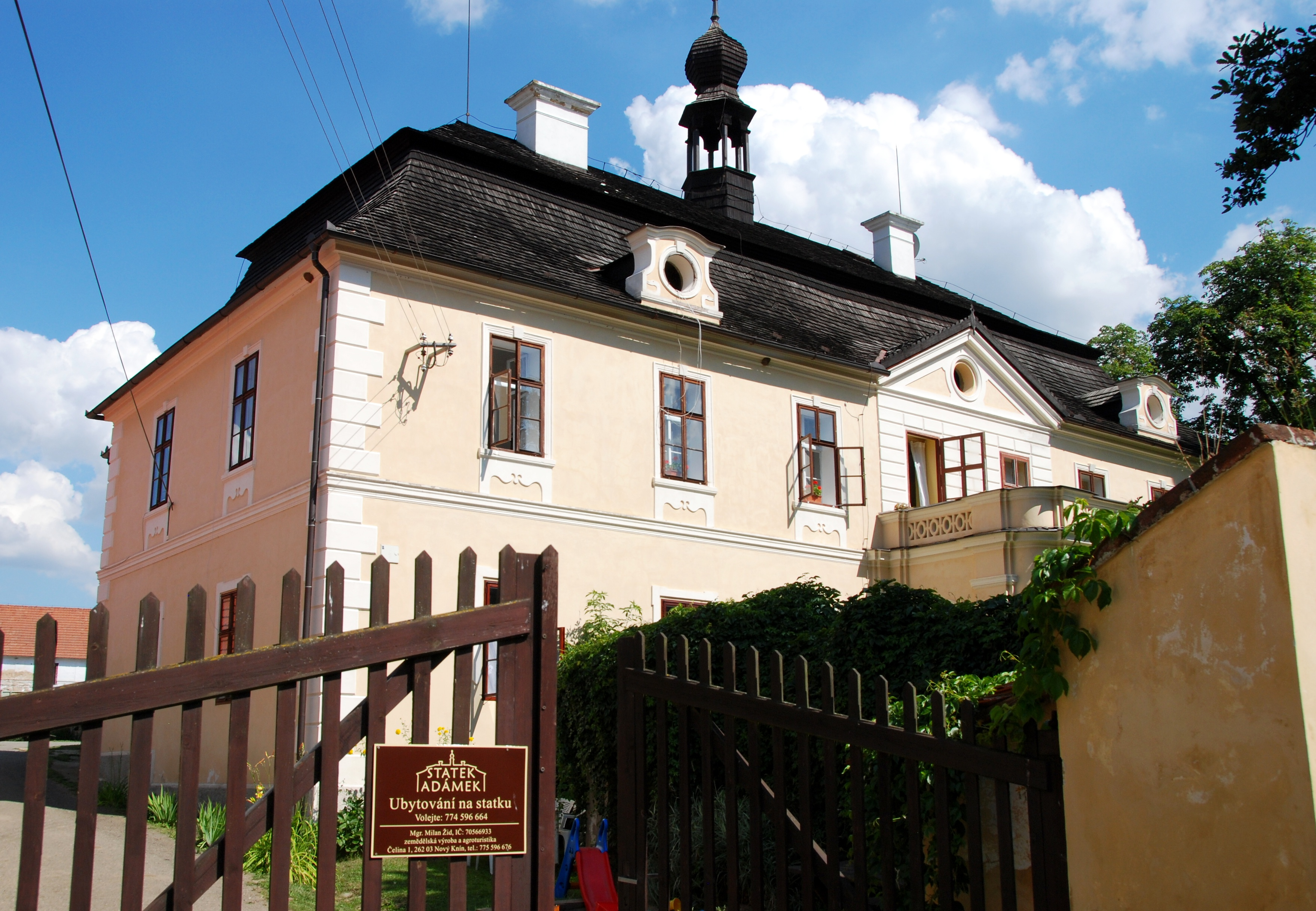 This photograph was taken within the scope of the second year of the 'Czech Municipalities Photographs' grant. Zámek Čelina